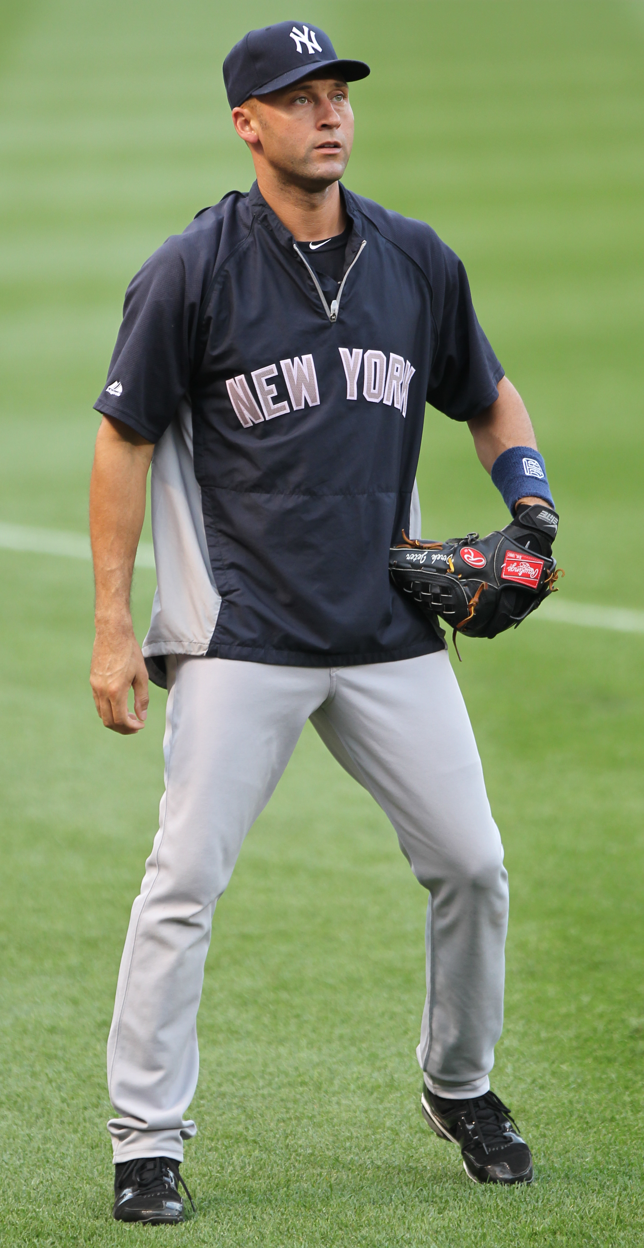 Derek Jeter participates in pregame warmups before a game between the New York Yankees and Baltimore Orioles on August 26, 2011